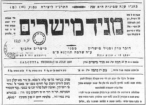 Maggid Mesharim (1890-1901), a Judeo-Arabic newspaper published in Calcutta, India by the Baghdadi-born Rabbi Shelomo Twena. 15/07/1897.